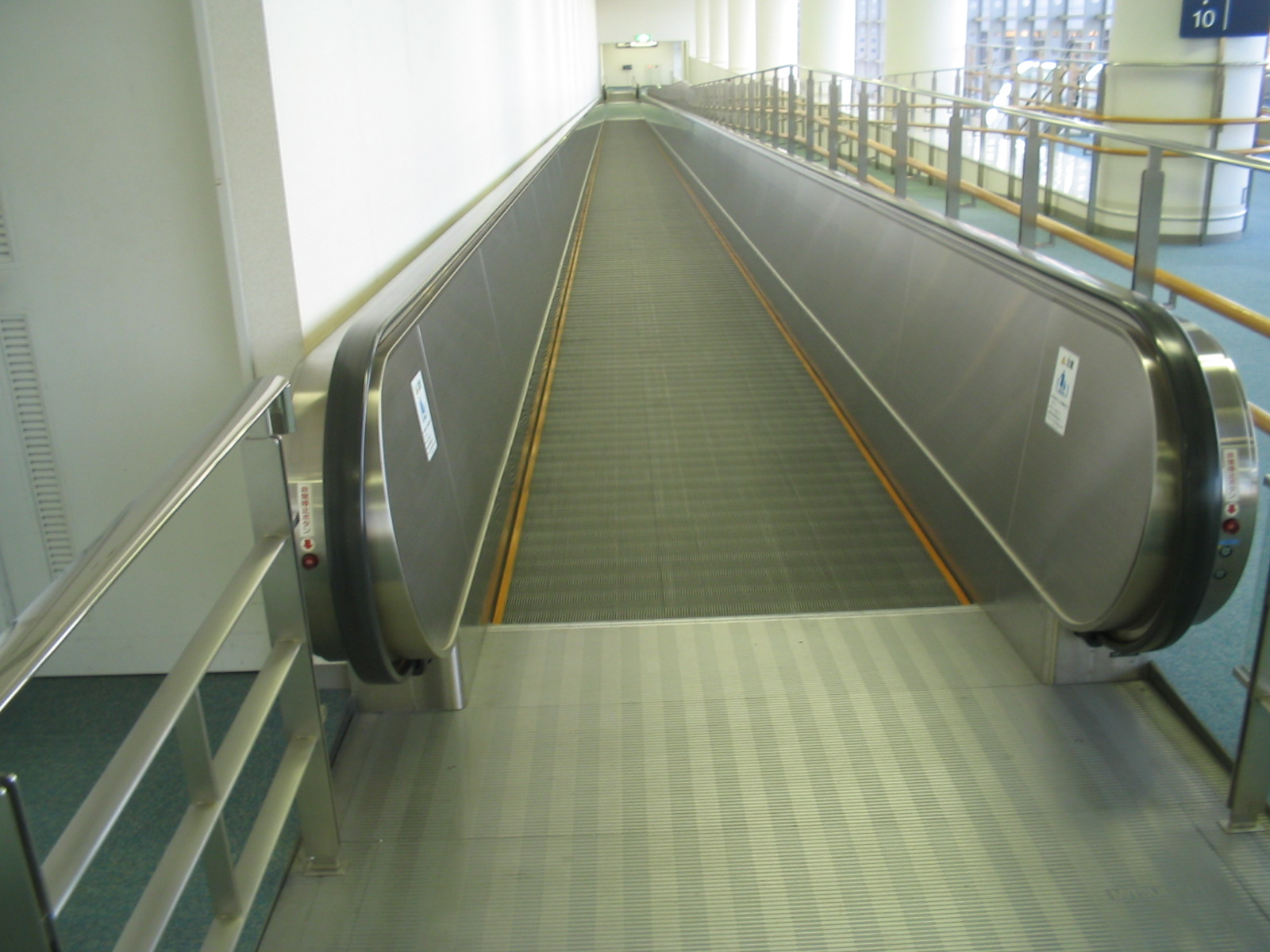 convoyer belt in Hong Kong airport